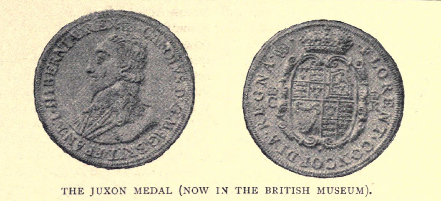 The "Juxon Medal", by Thomas Rawlins, thought to be a patten for a five-broad coin.